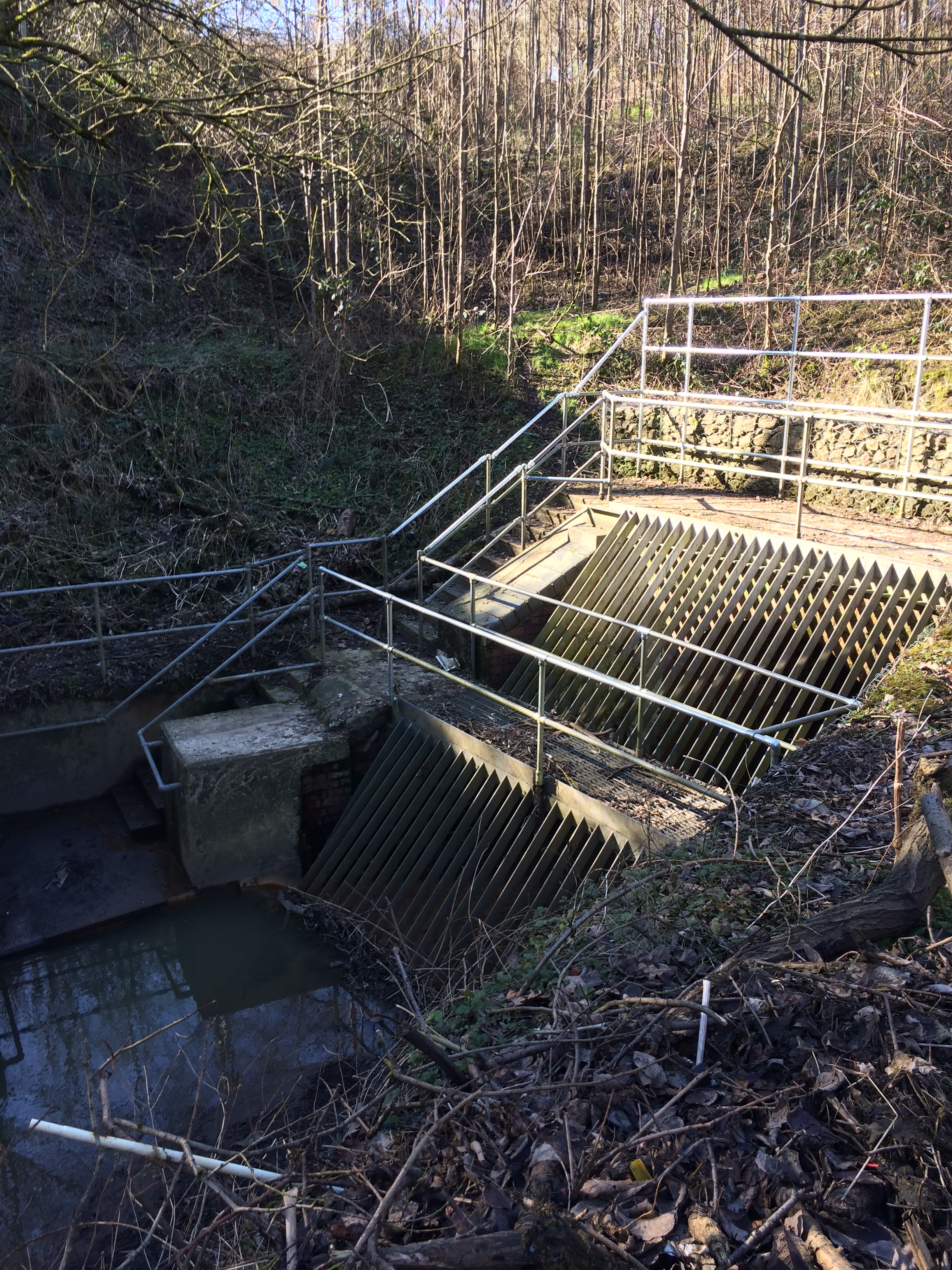 Moston Brook, a tributary of the River Irk, in Manchester, England. This is the inflow for one of its culverts near Wiliiams Road.